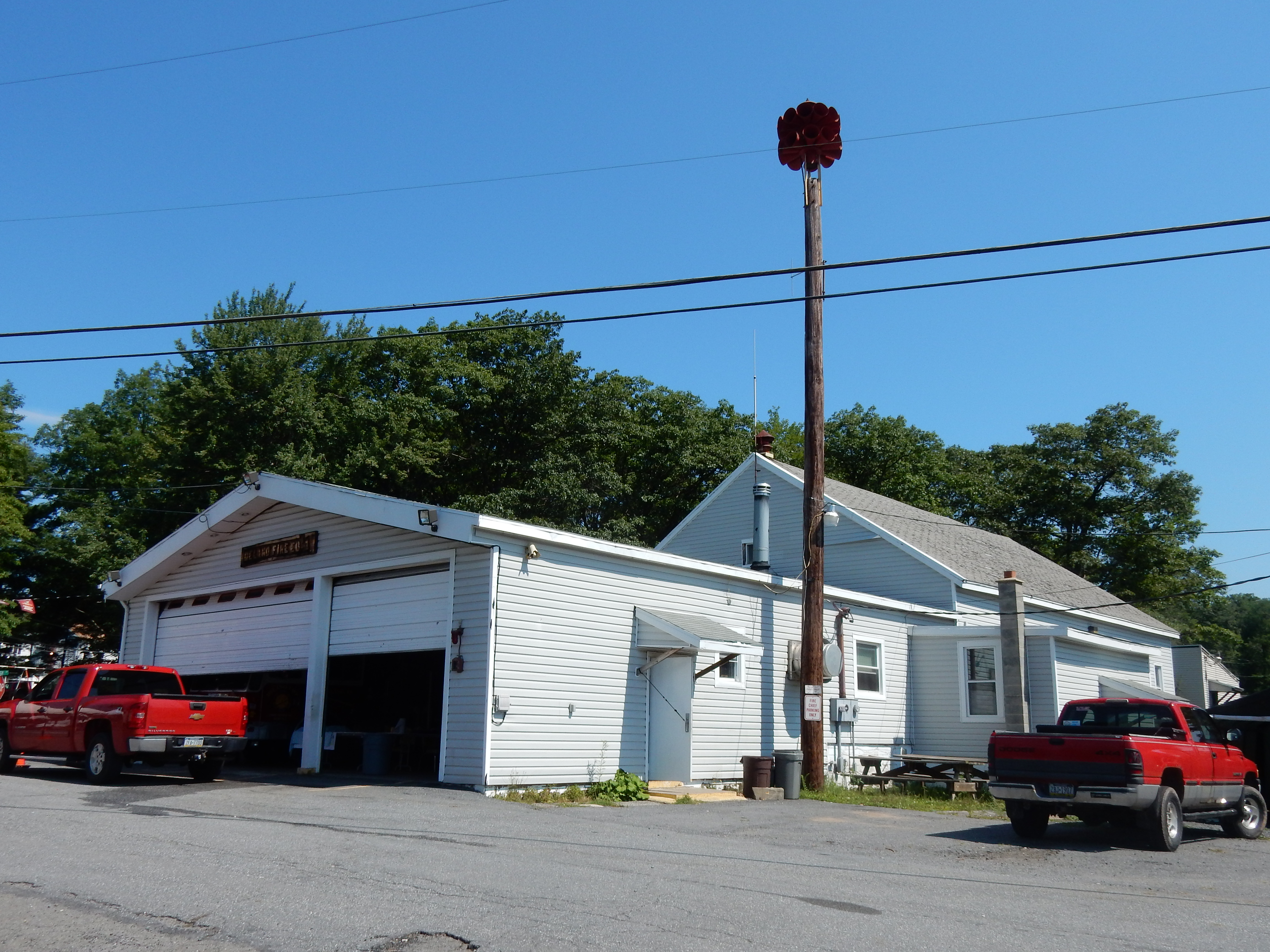 Delano Fire Co. #1, 1 Birch St., Delano CDP, Delano Township, Schuylkill County, Pennsylvania.